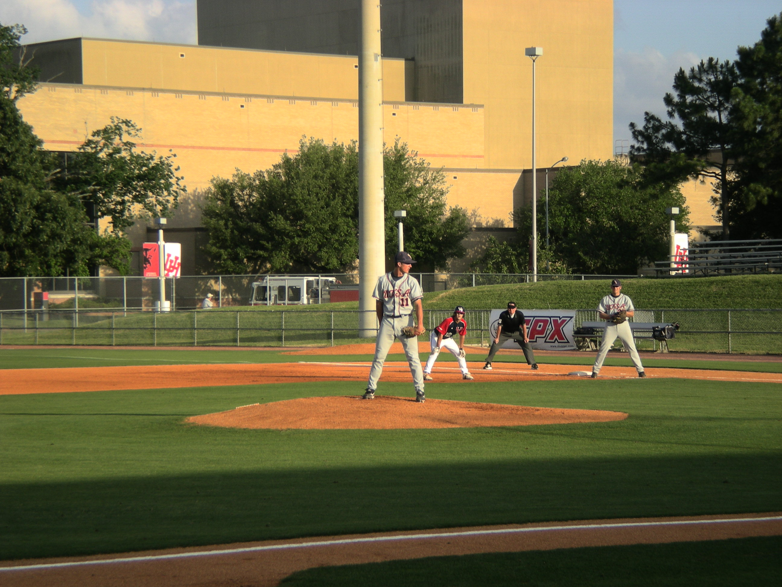 The University of Texas at San Antonio baseball team at the University of Houston's Cougar Field.